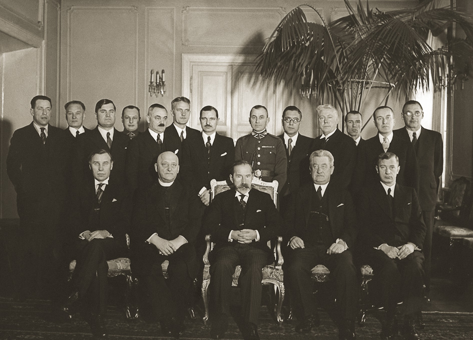 Nineteenth Ministers cabinet of Lithuania in Presidential Palace. Kaunas, 1939. From left: siting - Governor of the Bank of Lithuania J. Tūbelis, Prime minister V. Mironas, President A. Smetona, Speaker of Seimas K. Šakenis, J. Takūnas; standing sixth - J. Skaisgiris, eight J. Gudauskas, eleventh K. Germanas, twelfth J. Urbšys.